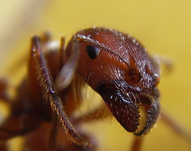 The head of an ant seen very close up.